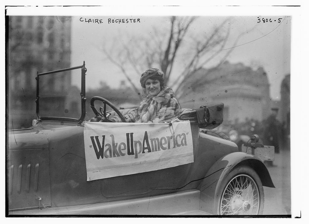 Claire Rochester on 6 April 1917 on her car tour